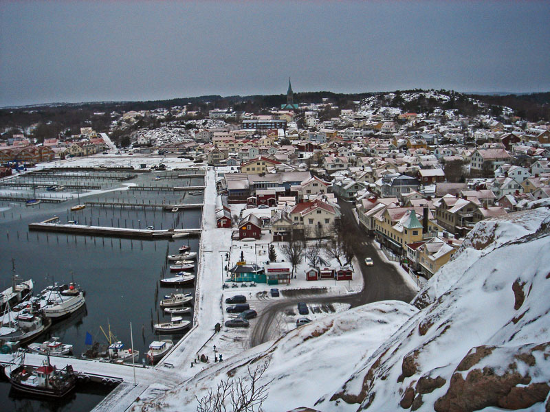 ingth, 20070224